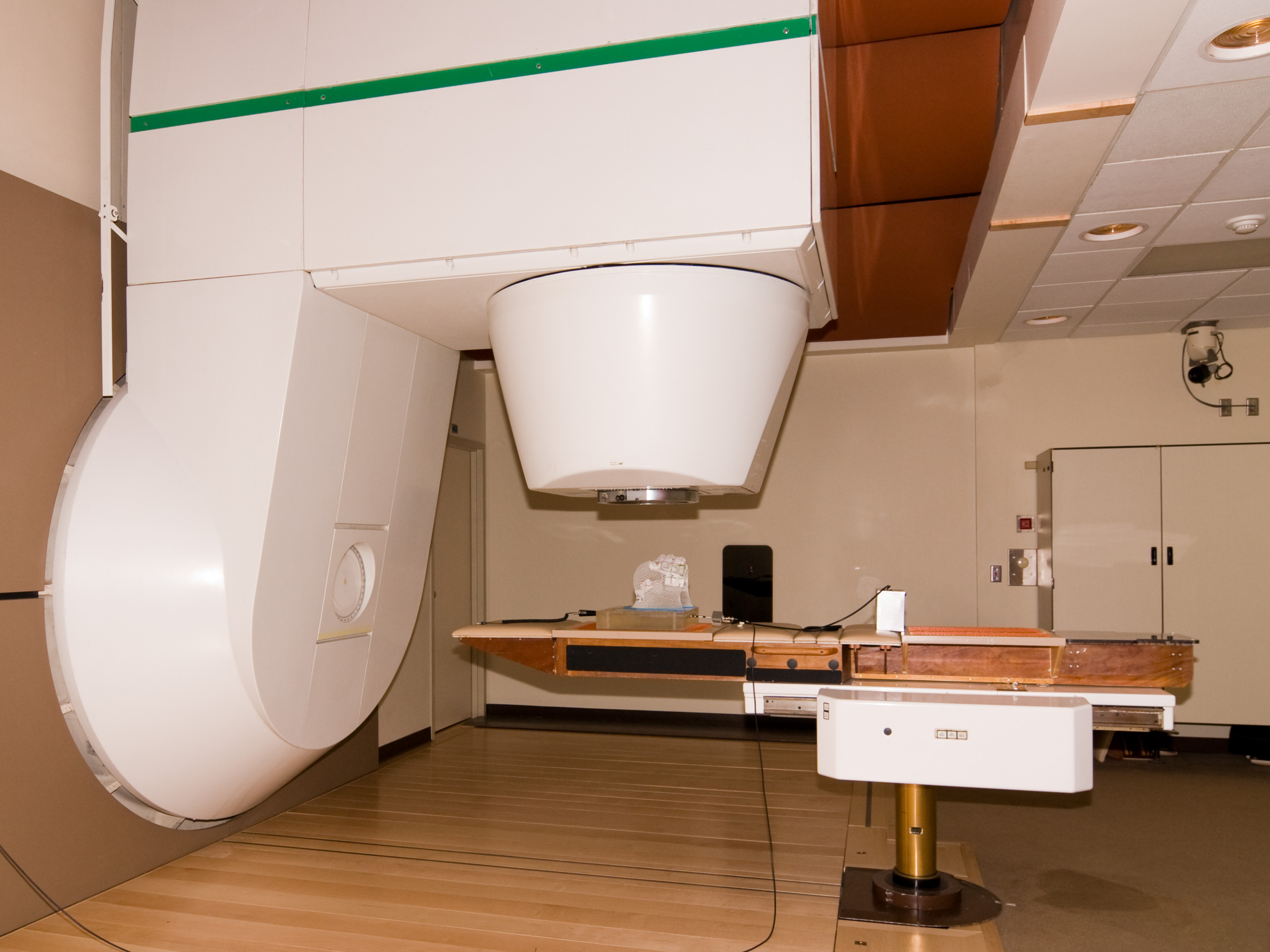 Patient treating room for neutron radiation therapy, University of Washington The patients lie on the table where the dummy head is. The dummy head is used for calibrating the system. The big white part on the left can rotate 360° around its horizontal axis to treat a patient all around his body.